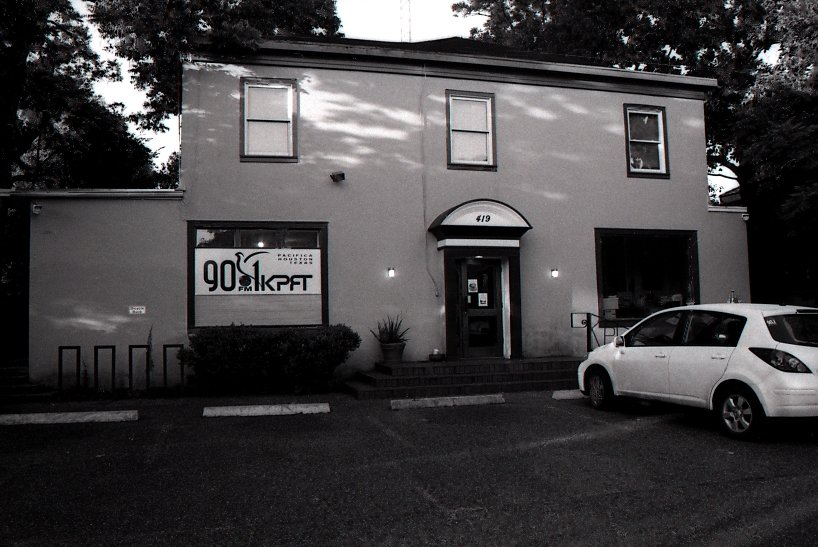 KPFT Radio Pacifica on Lovett Boulevard, Houston